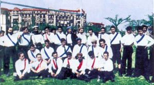 Real Madrid (Madrid FC) in 1902